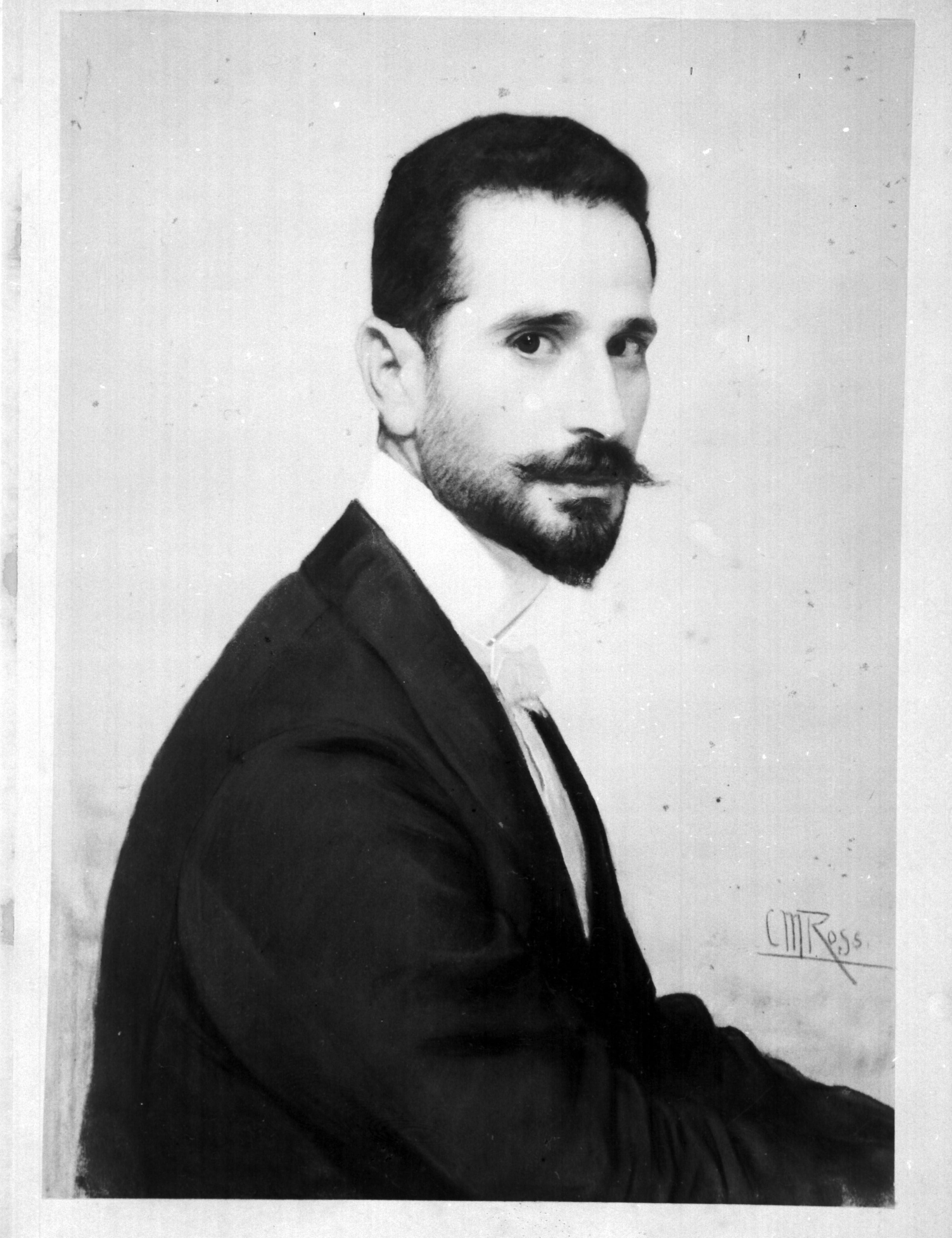 Artist: unknown Date/place: unknown Subject: Christian Meyer Ross Medium: photographic positive, B&W Notes: Norwegian painter Persistent URL: [#//bergenbibliotek.no/digitale-samlinger//engelsk/-intro-eng” Original belongs to the Edvard Grieg Archives at Bergen Public Library] Original reference: EGM0296